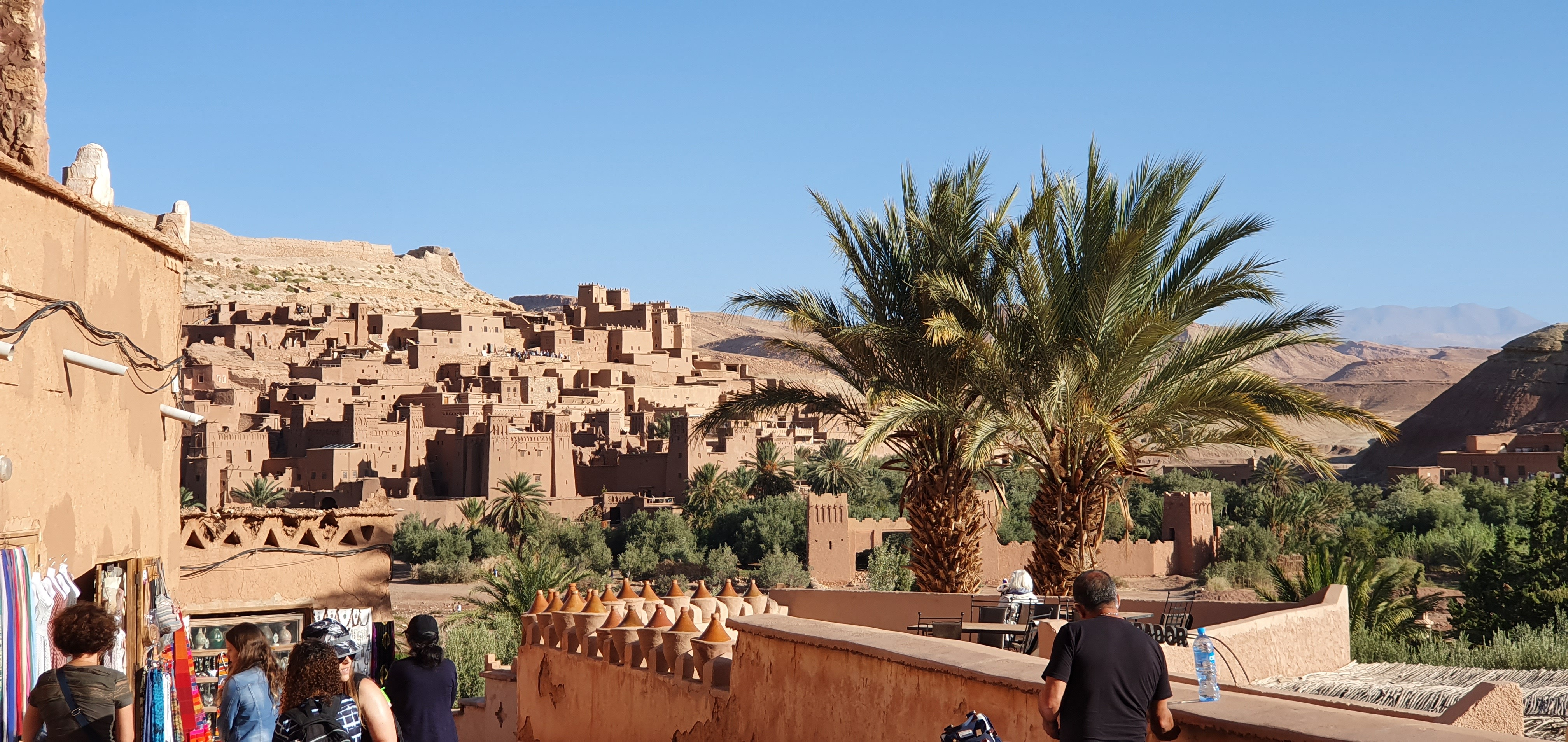 Aït Benhaddou